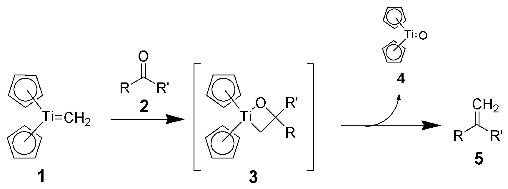 Reaction mechanism of a methylenation using the Tebbe reagent.